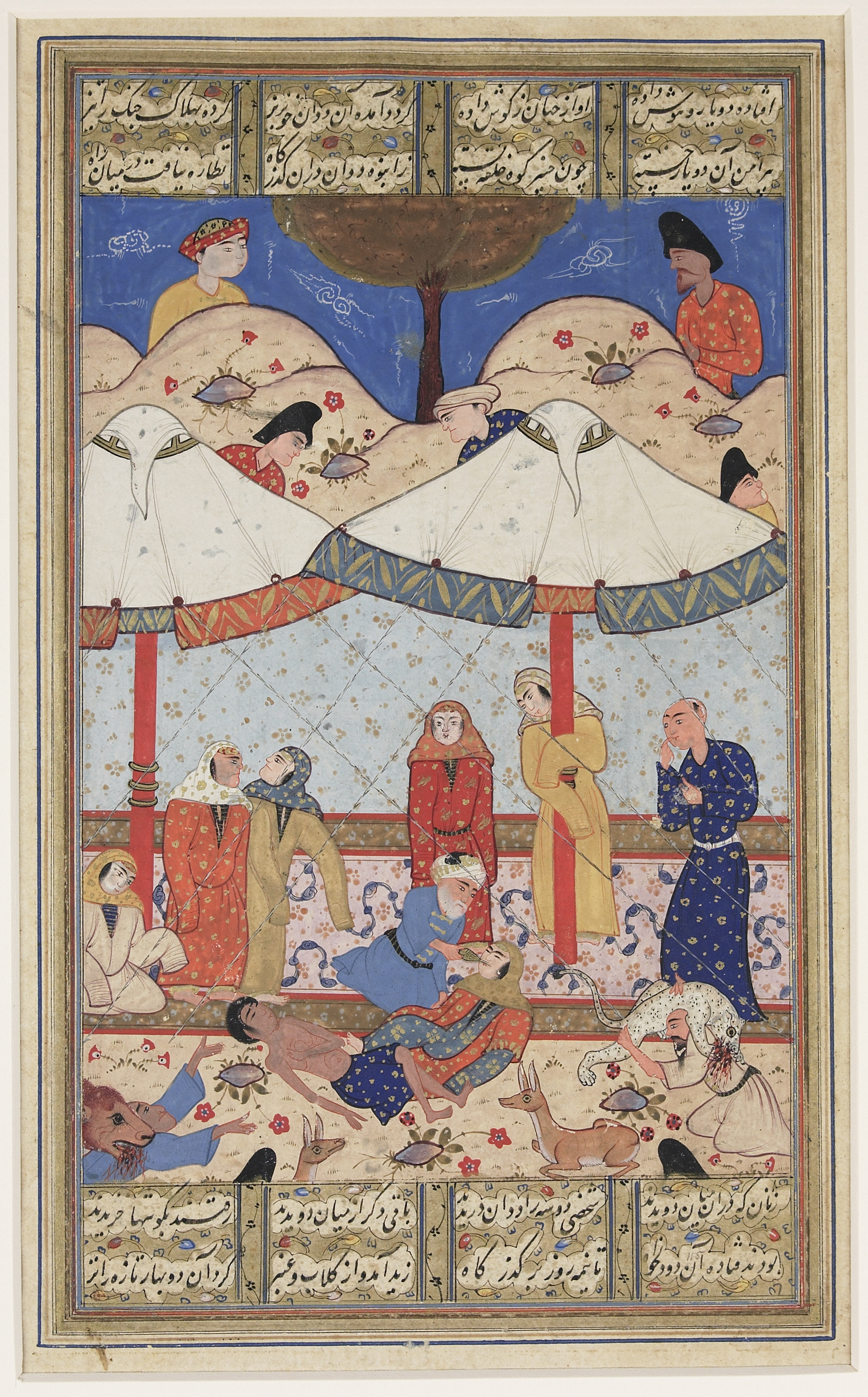 This folio depicts a well-known passage from the tragic story of Laylah and Majnun described in the third book of Nizami's "Khamsah" (Quintet). Forcibly separated by their respective tribes' animosity, forced marriage, and years of exile into the wilderness, these two ill-fated lovers meet again for the last time before their deaths thanks to the intervention of Majnun's elderly messenger. Upon seeing each other in a palm-grove immediately outside of Laylah's camp, they faint of extreme passion and pain. The old man attempts to revive the lovers, while the wild animals protective of Majnun ("The King of Wilderness") attack unwanted intruders. The location and time of the narrative is hinted at by the two tents dressed in the middleground and the dark nighttime sky in the background. The composition's style and hues are typical of paintings made in the city of Shiraz during the second half of the 16th century. Many manuscripts at this time were produced for the domestic market and international export, rather than by royal commission. This particular painting appears to have been executed at the same time as the text of the "Khamsah" proper, which survives on the painting's verso. Script: nasta'liq Dimensions of Painting: Recto: 12.2 (w) x 16.7 (h) cm Dimensions of Written Surface: 12.2 (w) x 20.9 (h) cm